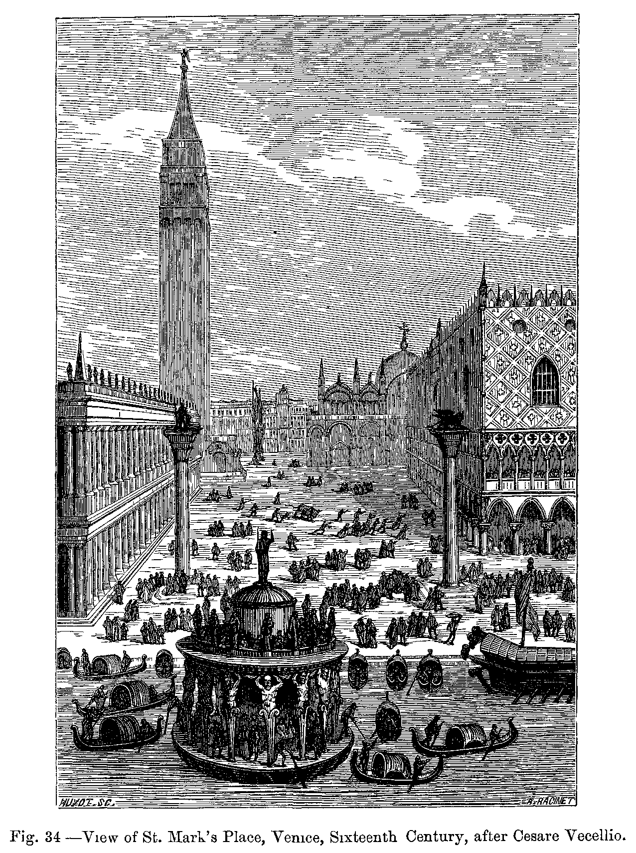 View of St. Mark's Place, Venice, in 16th century. Steel engraving by Huyot and Racinet, after a sixteenth century etching by Cesare Vecellio. From Project Gutenberg text 10940.